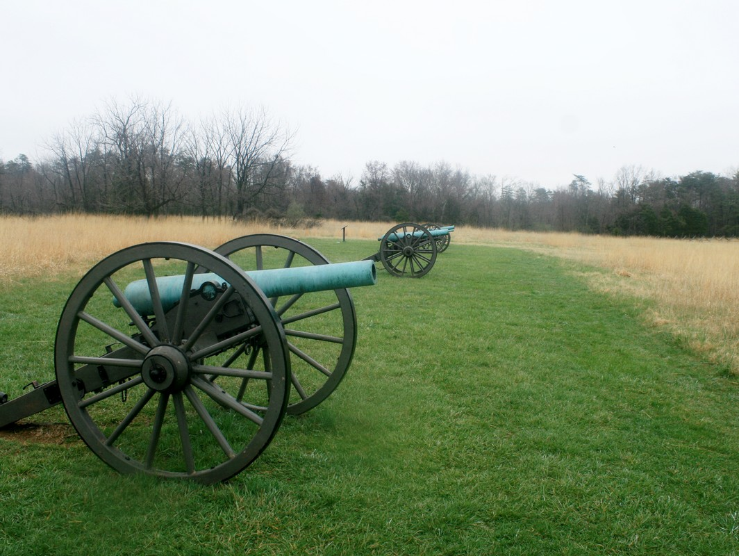 Bull Run batlefield, Metthews Hill, Rhod Island battery